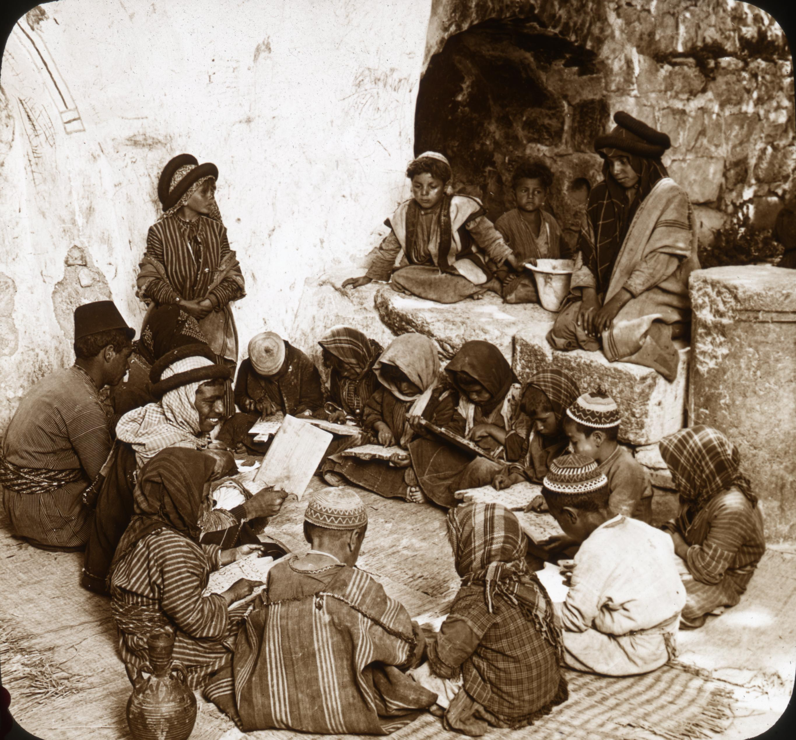 Image Description from historic lecture booklet: "While we are passing through Ramah we pause in the courtyard of one of its homes to look at a Mohammedan school. You see the turbaned teacher, with a page of the Koran in his hand; for throughout the world of Islam, the Koran is the only text-book. Before him are seated the young pupils in a circle, while around visitors are looking on. In some such group as this sat the boy Jesus at school in Nazareth, only there he held a leaf of the Old Testament; and in another circle like this in the temple at Jerusalem say Saul the youth from Tarsus at the feet of Gamaliel." Original Collection: Visual Instruction Department Lantern Slides Item Number: P217:set 013 025 You can find this image by searching for the item number by clicking here. Want more? You can find more digital resources online. We're happy for you to share this digital image within the spirit of The Commons; however, certain restrictions on high quality reproductions of the original physical version may apply. To read more about what “no known restrictions” means, please visit the Special Collections & Archives website, or contact staff at the OSU Special Collections & Archives Research Center for details.